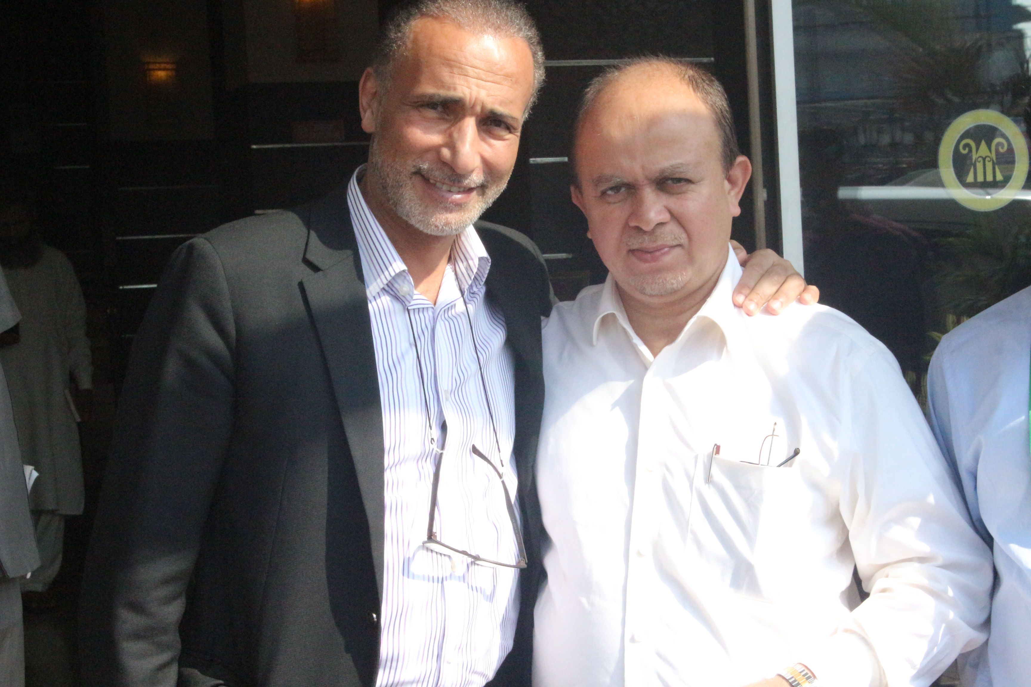 ഡോ. അബ്ദുസ്സലാം അഹ്മദ് ഓക്സ്ഫോർഡ് യൂണിവേഴ്സിറ്റി ലെക്ച്ചറർ താരിഖ് റമദാനോടൊപ്പം